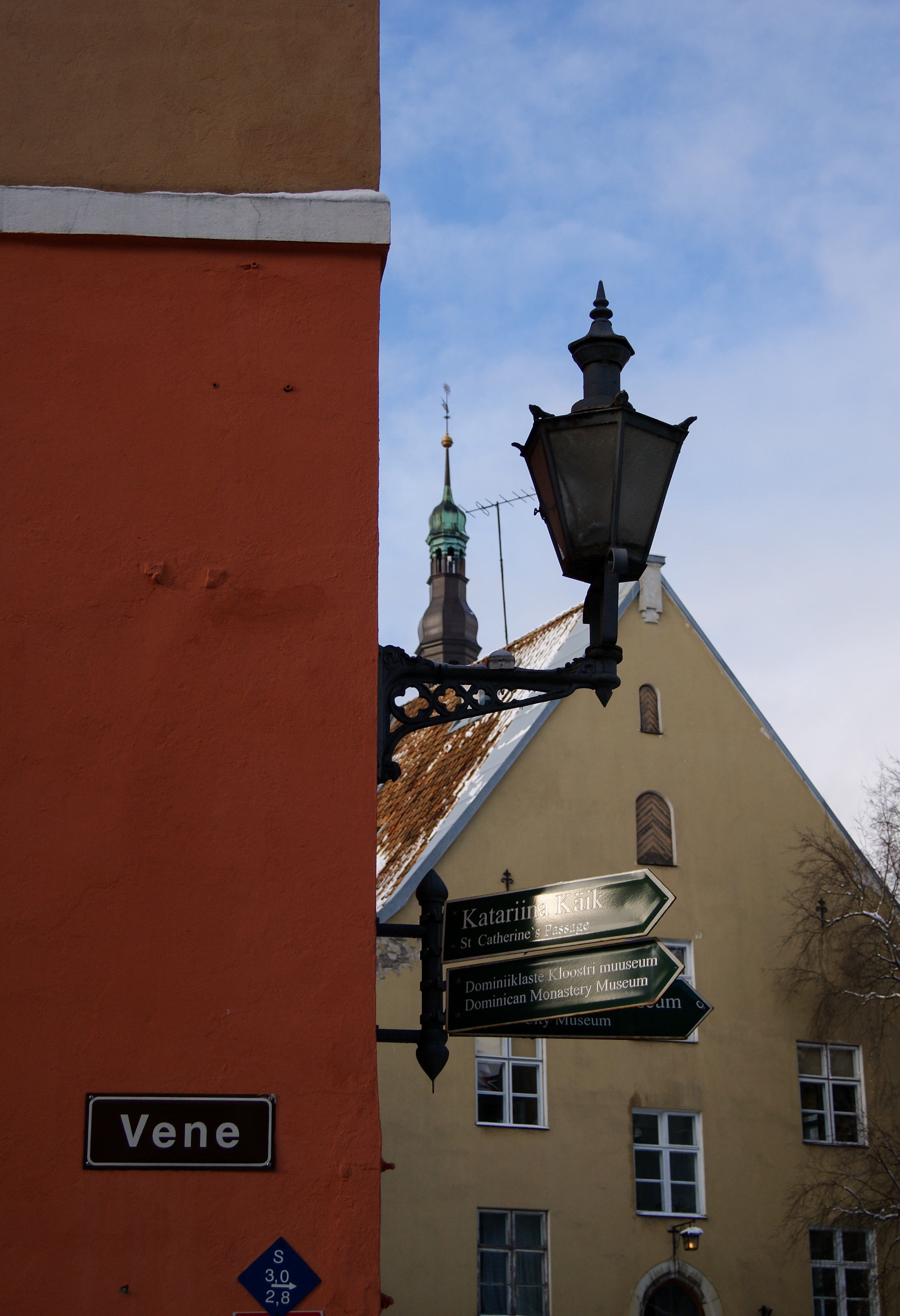 Tallinn old town